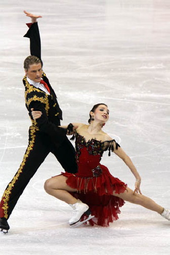 Meryl Davis and Charlie White at the the 2009 World Championships.